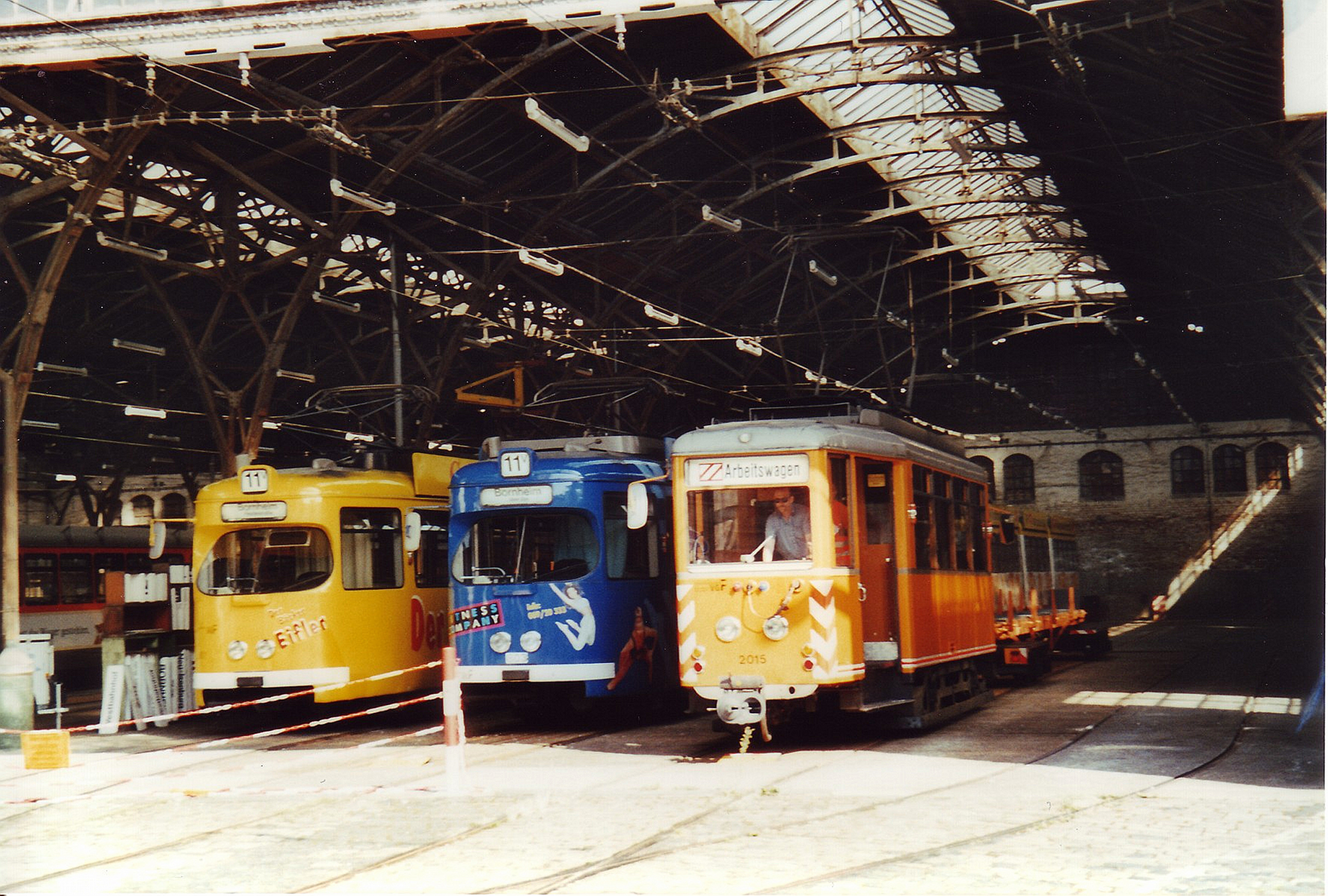 tram depot in Frankfurt am Main-Bornheim with service railcar 2015 and two N-type railcars in August 2001